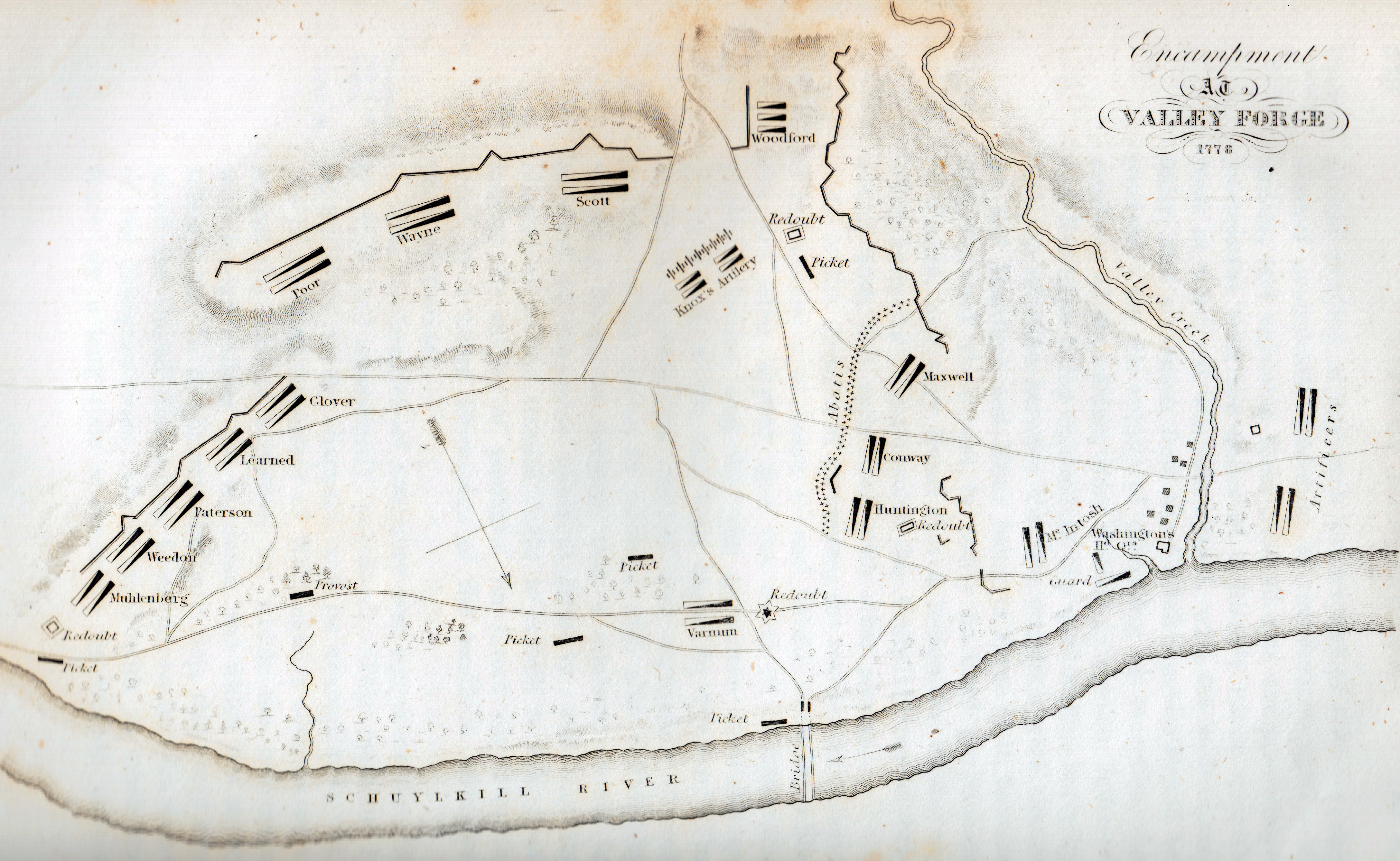 Encampment at Valley Forge 1778 (Steel engraving)